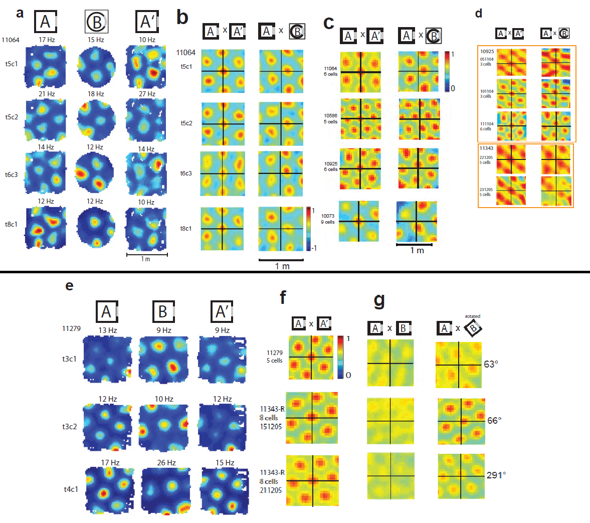 1) Realignment of entorhinal grid fields during hippocampal global remapping at a constant location 2) Realignment of entorhinal grid fields during hippocampal global remapping between different rooms